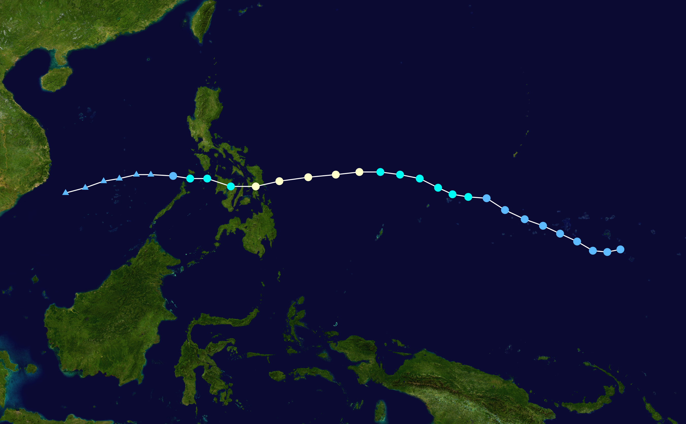 Track map of Severe Tropical Storm Roke of the 2005 Pacific typhoon season. The points show the location of the storm at 6-hour intervals. The colour represents the storm's maximum sustained wind speeds as classified in the Saffir–Simpson scale (see below), and the shape of the data points represent the nature of the storm, according to the legend below. Saffir–Simpson scale Tropical depression≤38 mph≤62 km/h Category 3111–129 mph178–208 km/h Tropical storm39–73 mph63–118 km/h Category 4130–156 mph209–251 km/h Category 174–95 mph119–153 km/h Category 5≥157 mph≥252 km/h Category 296–110 mph154–177 km/h Unknown Storm type Tropical cyclone Subtropical cyclone Extratropical cyclone / Remnant low / Tropical disturbance / Monsoon depression